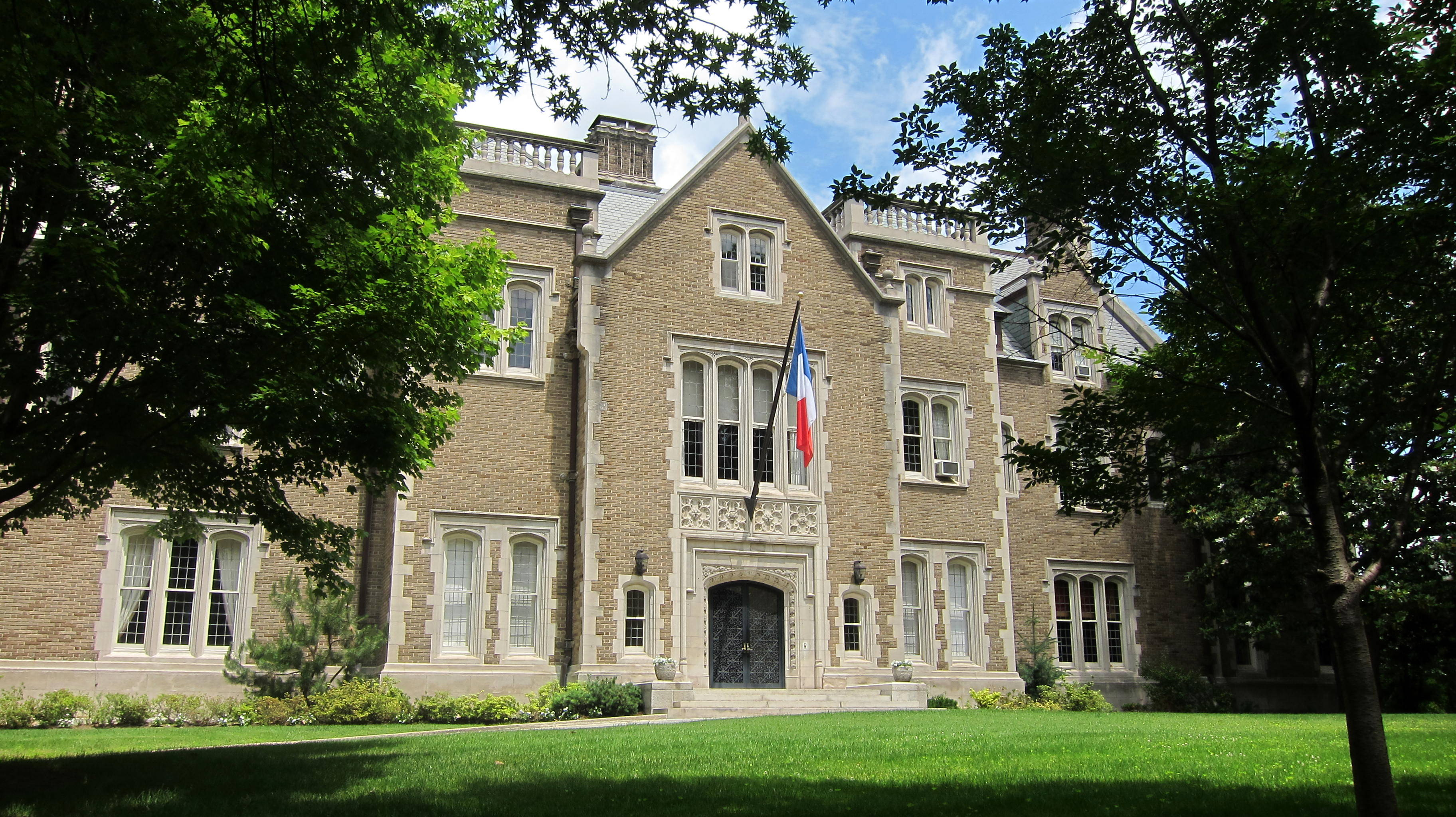 The French ambassador's residence located at 2221 Kalorama Road, N.W., in the Sheridan-Kalorama neighborhood of Washington, D.C. Designed by Jules Henri de Sibour in 1910, the building is a combination of Tudor Revival and Jacobean Revival styles of architecture. It is designated as a contributing property to the Sheridan-Kalorama Historic District, listed on the National Register of Historic Places in 1989. Previous occupants include mining magnates William W. Lawrence and John Hays Hammond. The building served as the Embassy of France from 1936 until the current chancery was constructed at 4101 Reservoir Road, N.W., north of Georgetown.